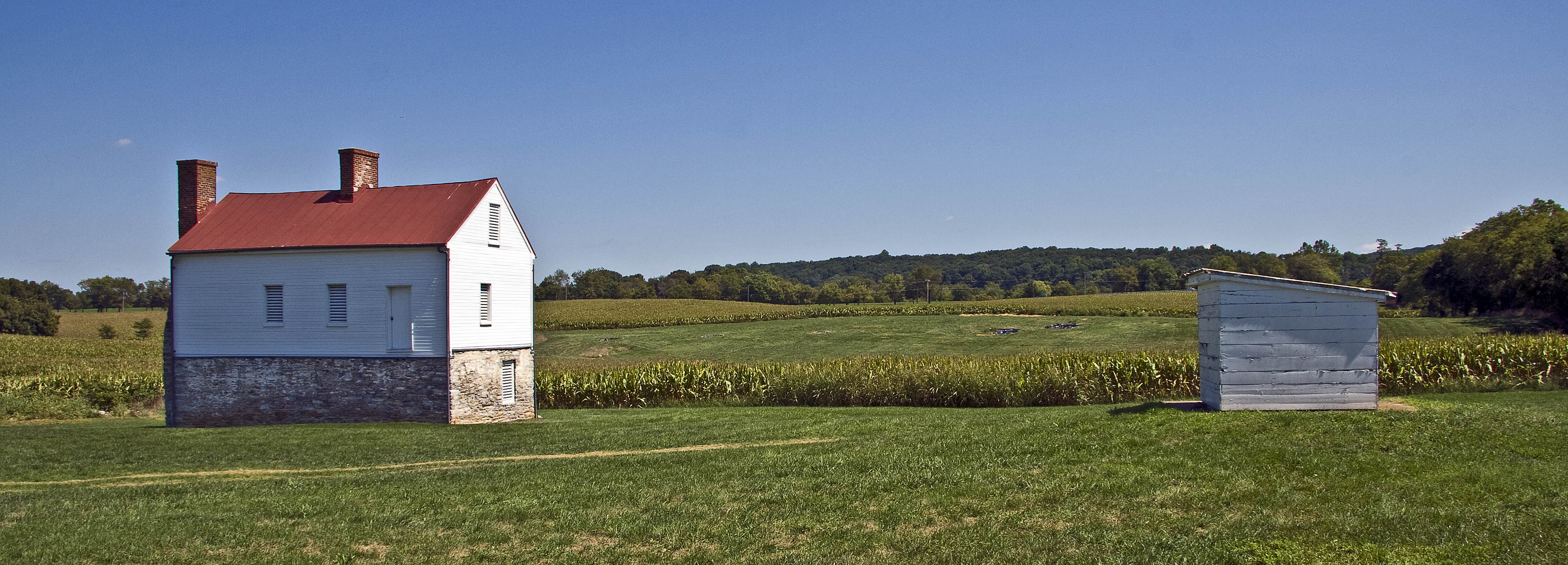 L'Hermitage slave village archeological site (in the unplanted field beyond the buildings) at the Best Farm (L'Hermitage Plantation), Monocacy National Battlefield near Frederick, Maryland USA